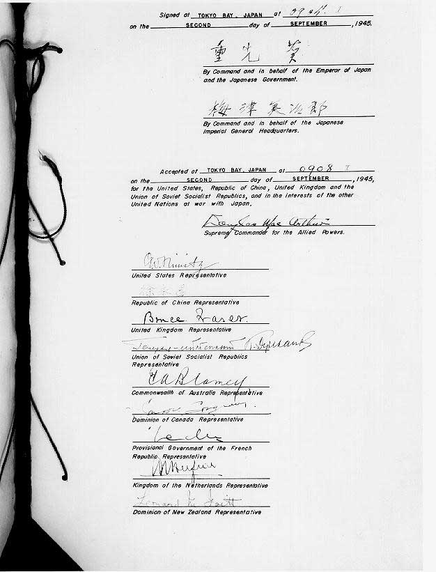 9 o'clock in the morning of September 2, 1945, the Japanese representatives signed the official Instrument of Surrender on the deck of the U.S.S. Missouri in Tokyo Bay. On September 7, the surrender document was presented to President Truman at White House. After the exhibition, the document was formally received (accessioned) into the holdings of the National Archives on October 1, 1945.